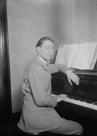 Ervin Nyíregyházi (1903 – 1987), Hungarian-born American pianist